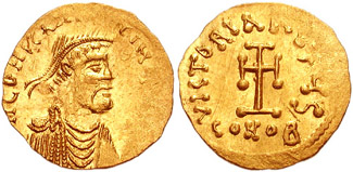 Constans II. 641-668 AD. AV Tremissis (16mm, 1.43 gm). Constantinople mint. Diademed bust Cross potent; CONOB. DOC I 45; SB 984. EF, areas of flat strike.